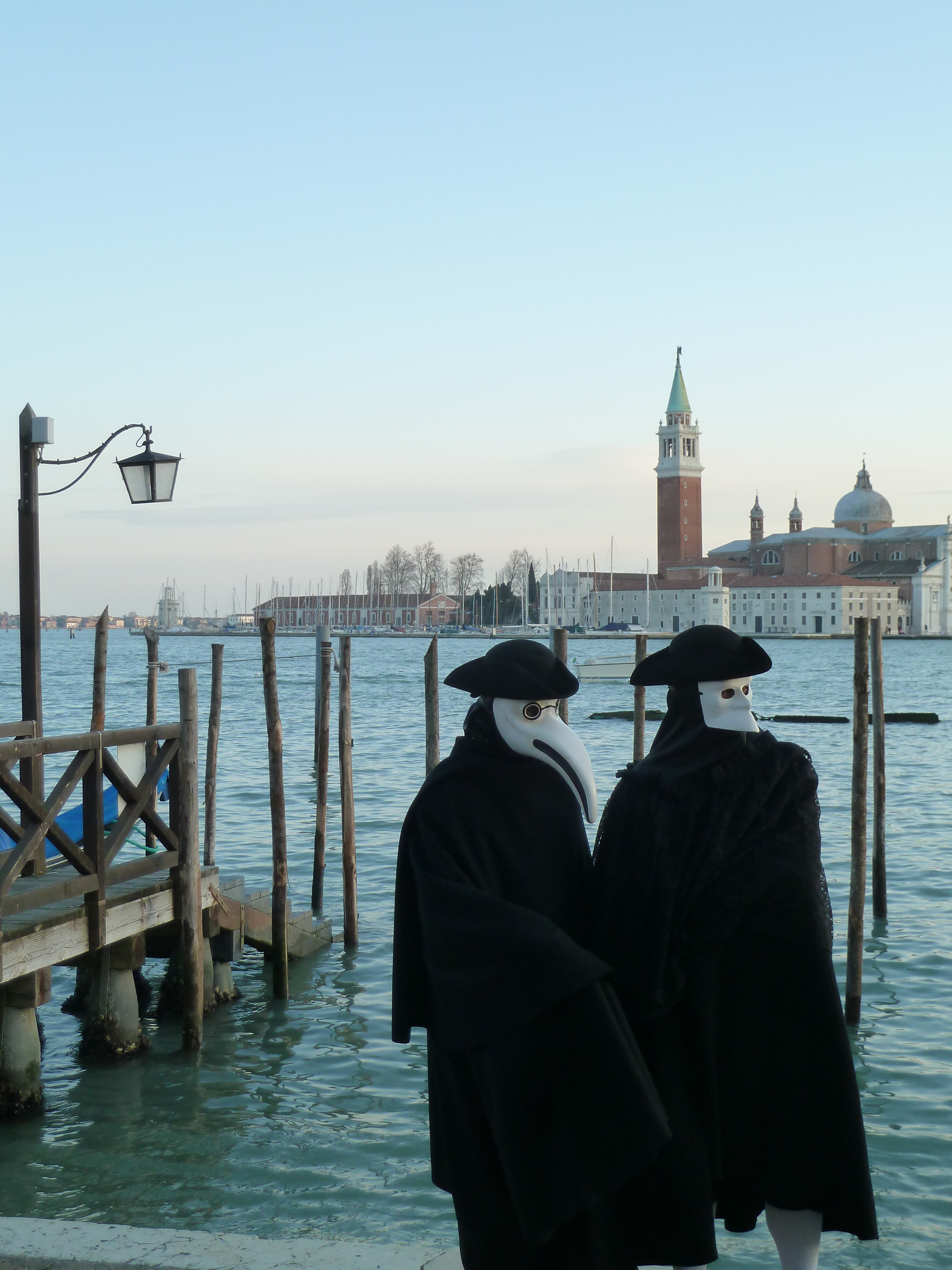 Carnival venice 2015